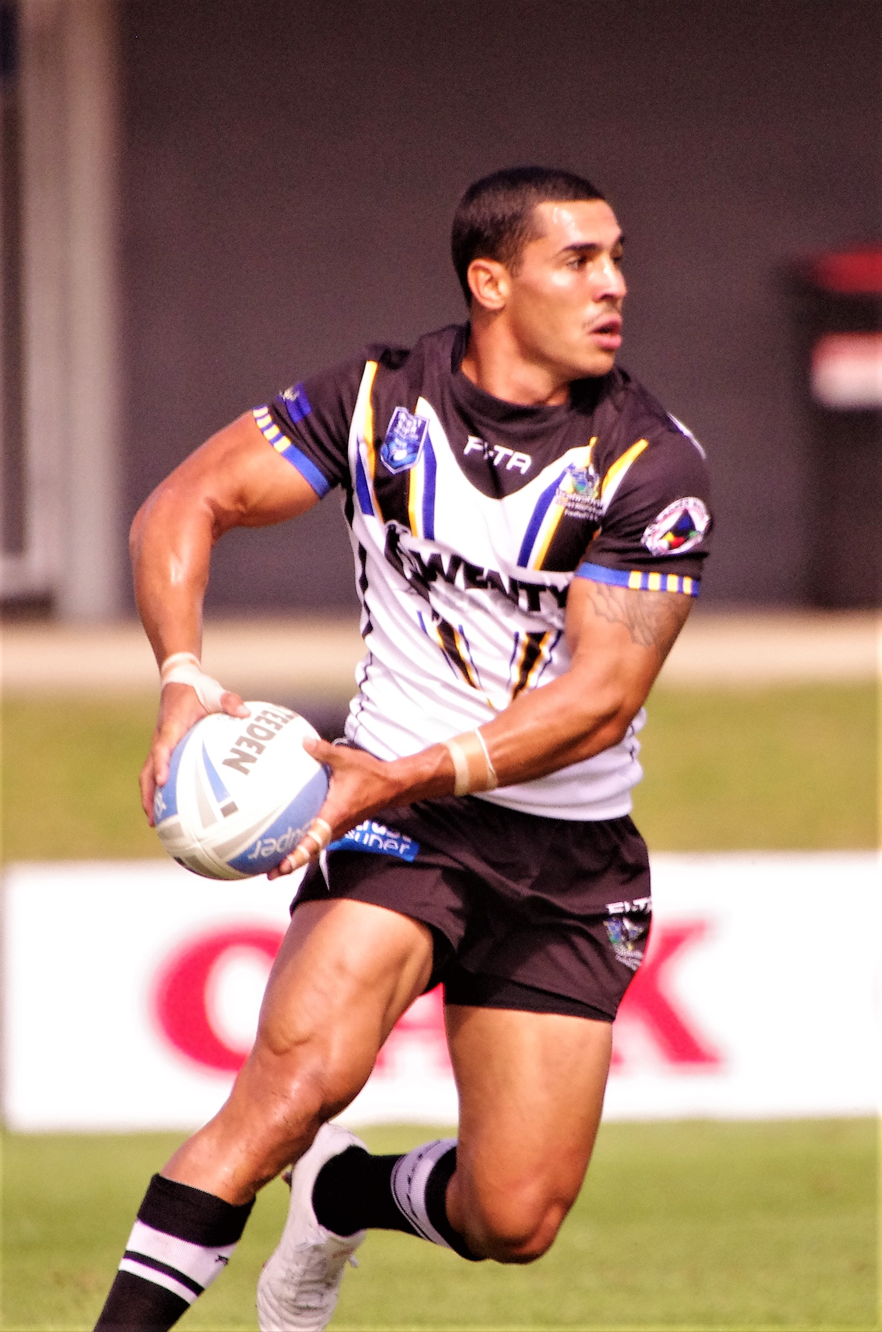 Jamal Fogarty